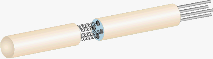 Platinum Coil in Tube Platinum Resistance Thermometer